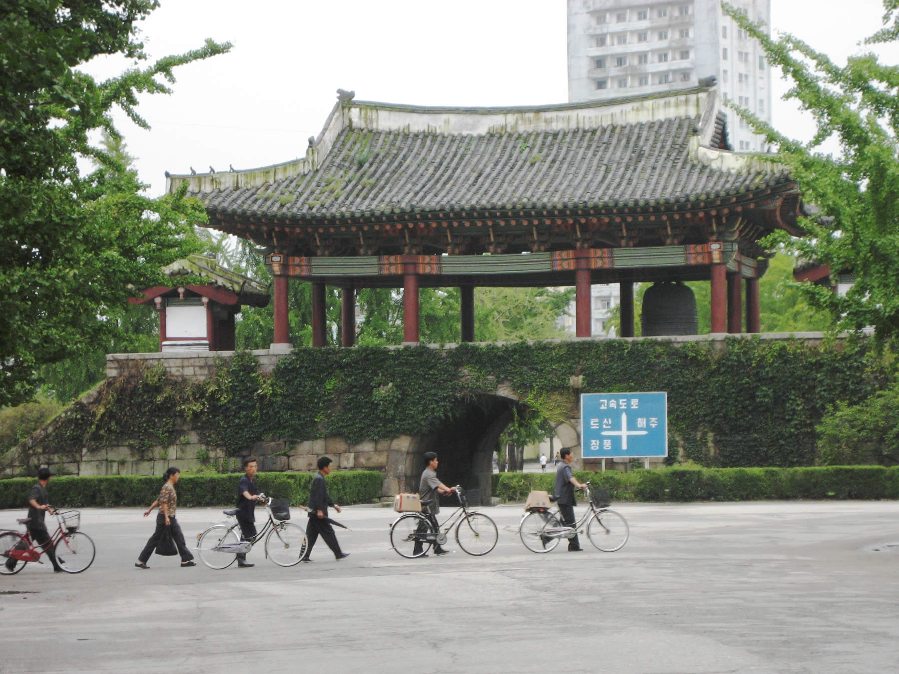 The old city gate in the center of Kaesong, DPRK.